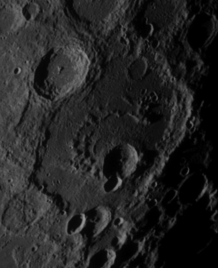 Oblique view of Milne, on the far side of the moon. Rotated so north is at top.